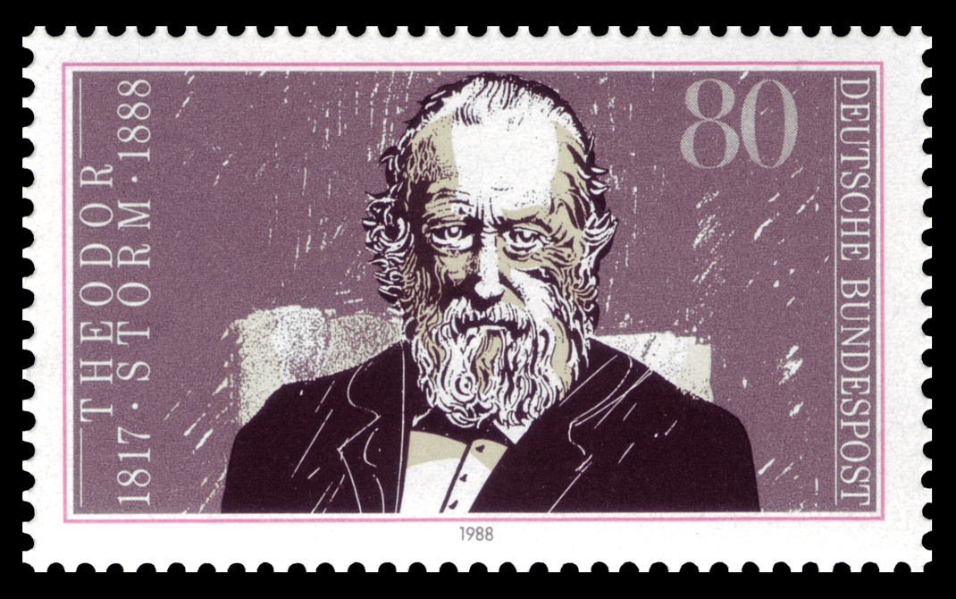 100th day of death of Theodor Storm (1817—1888)